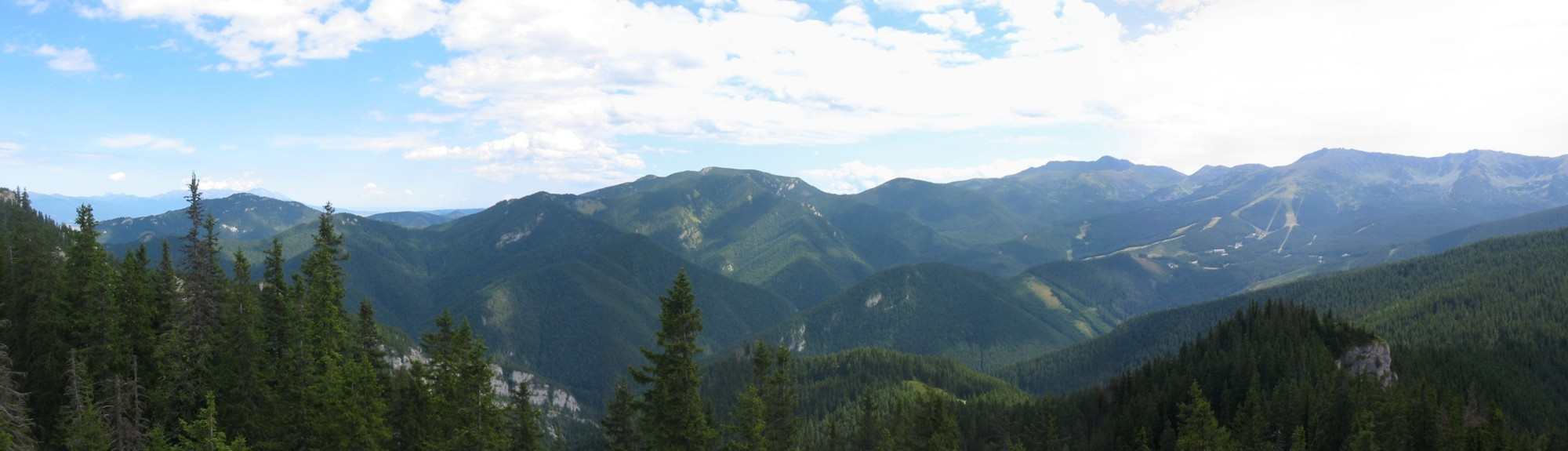 This is a panoramatic picture of Demanovska Valley from near Sina peak. It was taken by Palo Frankl in 2006 and it is a composition of a 4 photographs. On the right is a Chopok peak with clearly visible ski tracks and chairlifts, the next peak to the left is Dumbier.